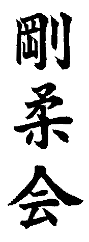 Goju-Kai in Kanji